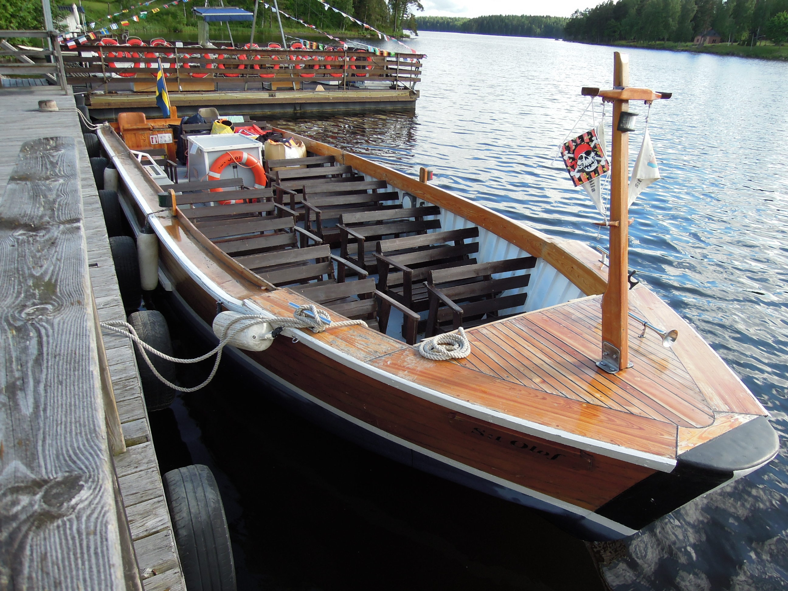 S:t Olof, a passenger ship at Ängelsberg, Sweden 2016.